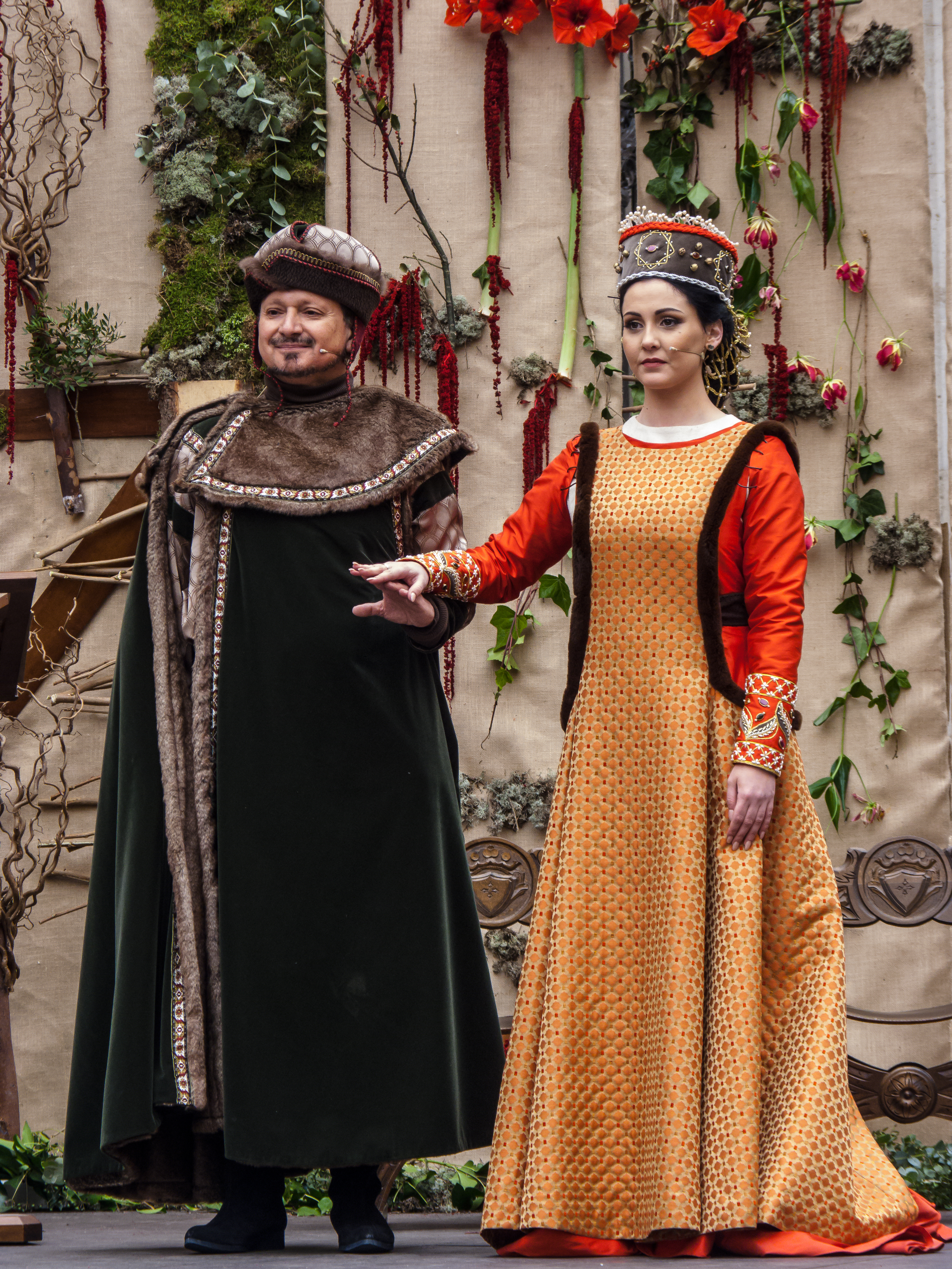 Bodas de Isabel de Segura. Teruel This is a photography of a Folklore festival in Spain (Wikidata id Q23657061).